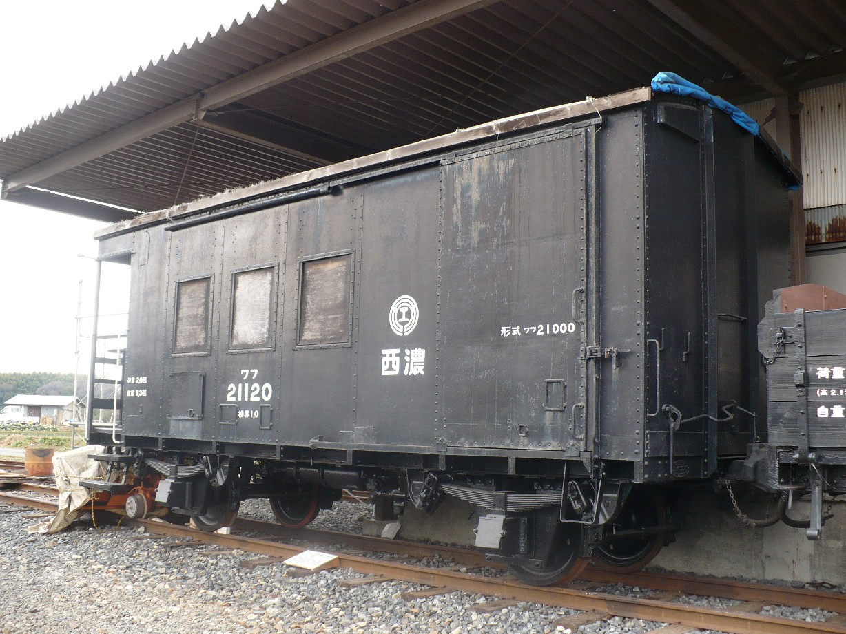 JNR "Wafu210000" type boxcar/caboose preserved in Freight Railway Museum, Inabe city Mie prefecture Japan